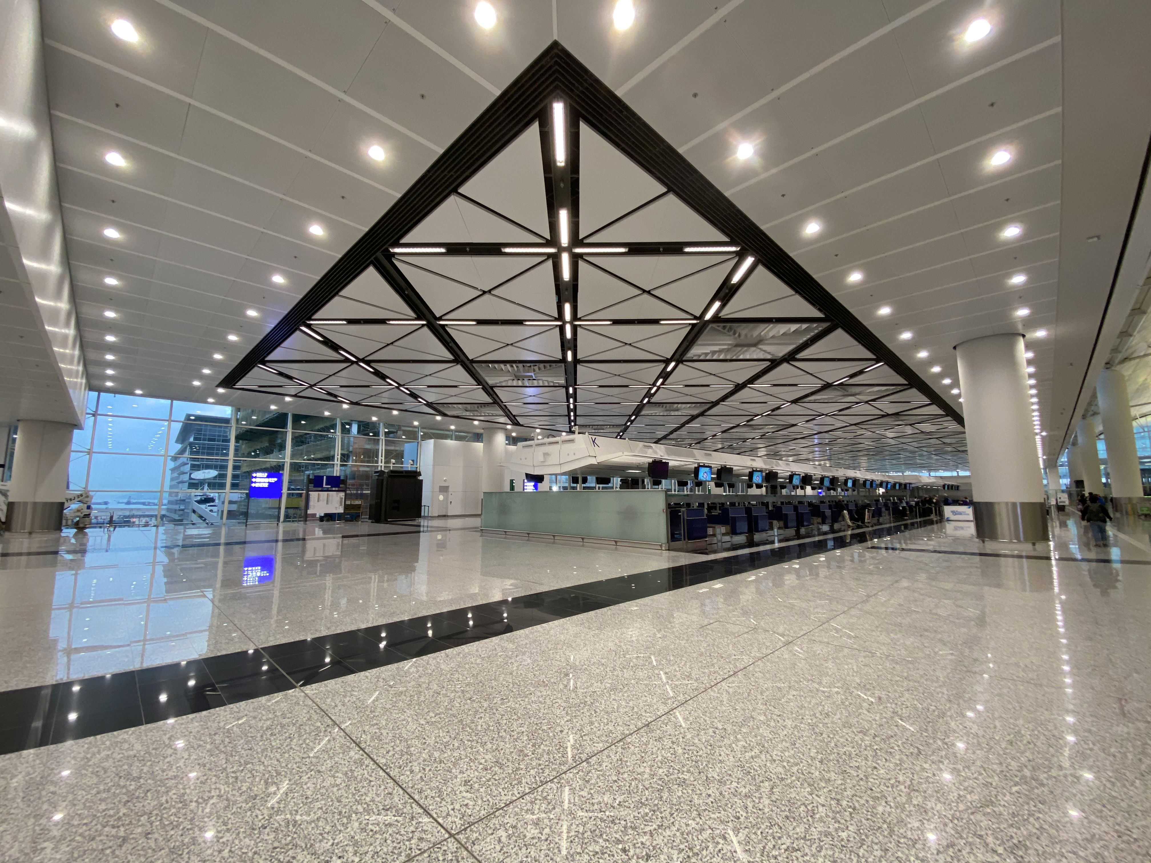 HKIA Terminal 1 Expansion area